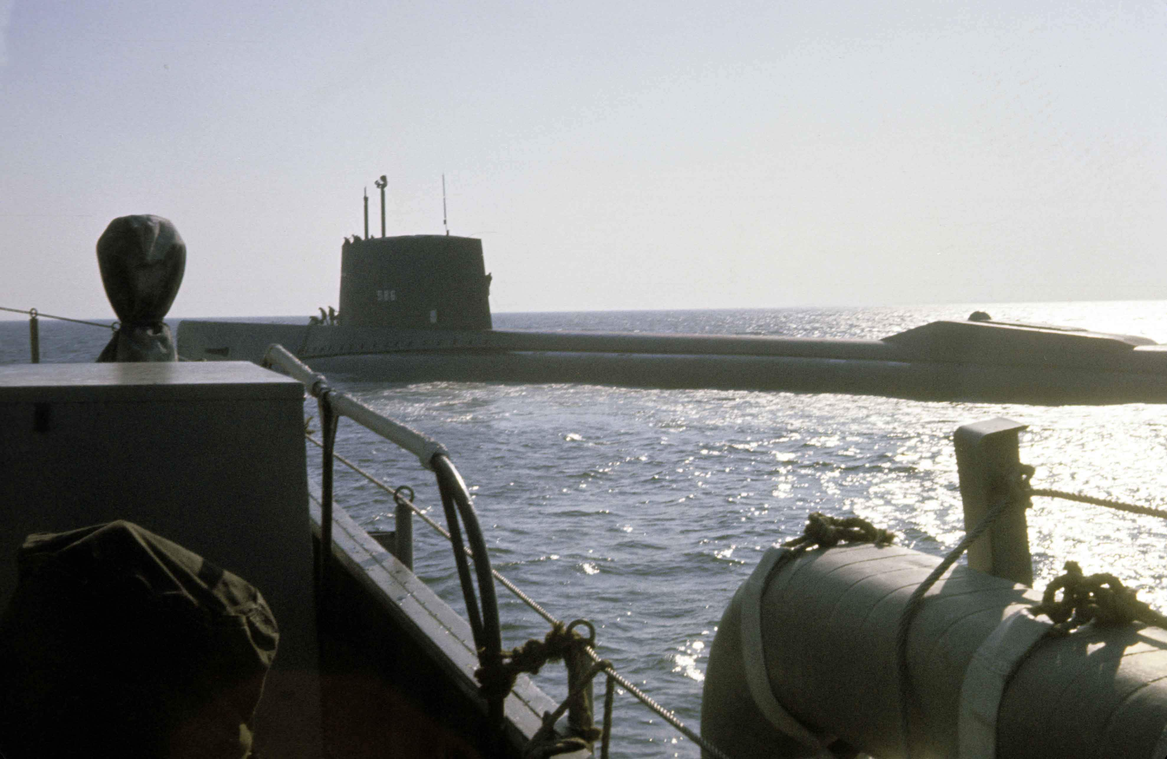 =USS Triton (SSRN-586) heading out for the beginning of the circumnavigation - 16 February 1960